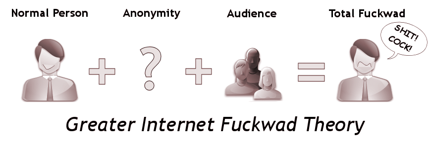 Greater Internet Fuckwad Theory, diagram adapted by anetode. Includes two modified GFDL images: Image:Crystal Clear app kuser.png & Image:Crystal Clear app Community Help.png Postulated by John Gabriel of Penny Arcade[1]